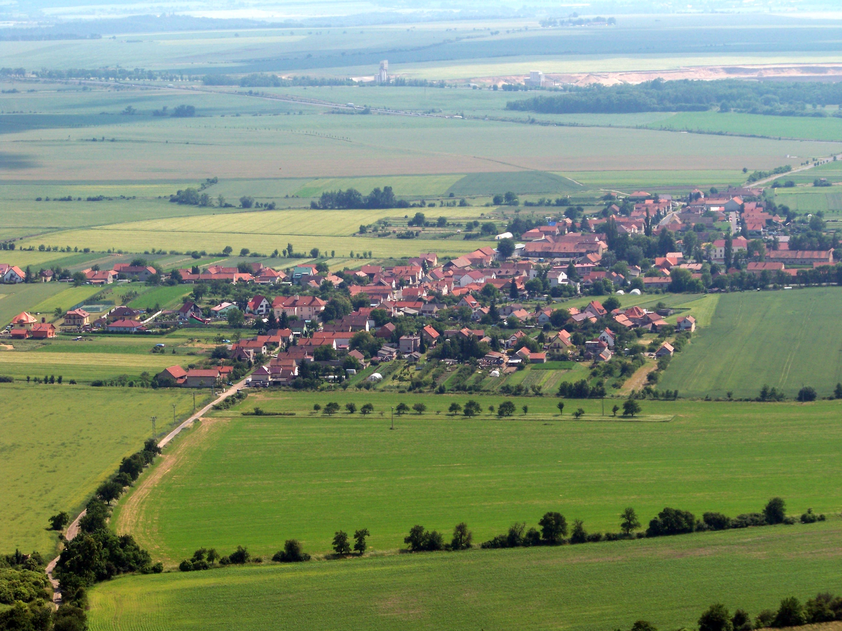 Mnetěš, Litoměřice District,Ústí nad Labem Region, the Czech Republic. A view from Prague View Point on the Říp Mountain.